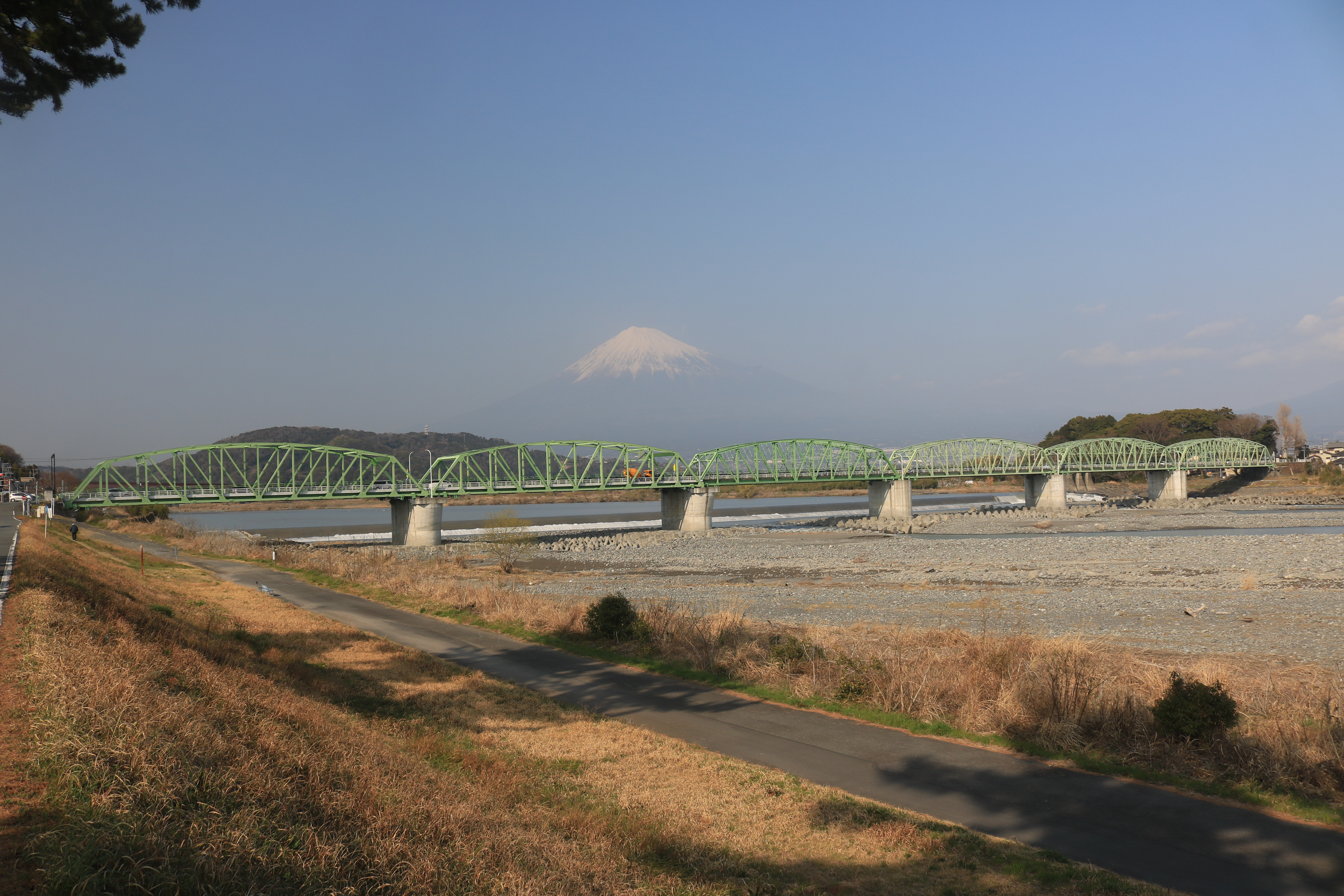 Fujikawa Bridge of Shizuoka Prefectural Road Route 396 over Fuji River and Mount Fuji in Fuji, Shizuoka Prefecture, Japan.